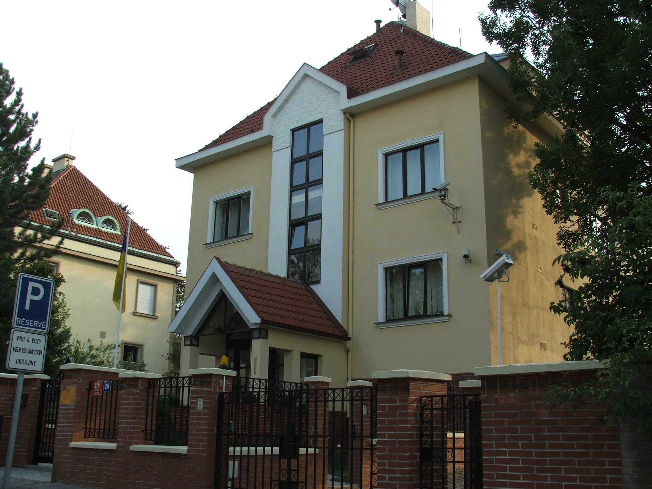 Embassy of Ukraine in Prague - Bubeneč, Czechia.